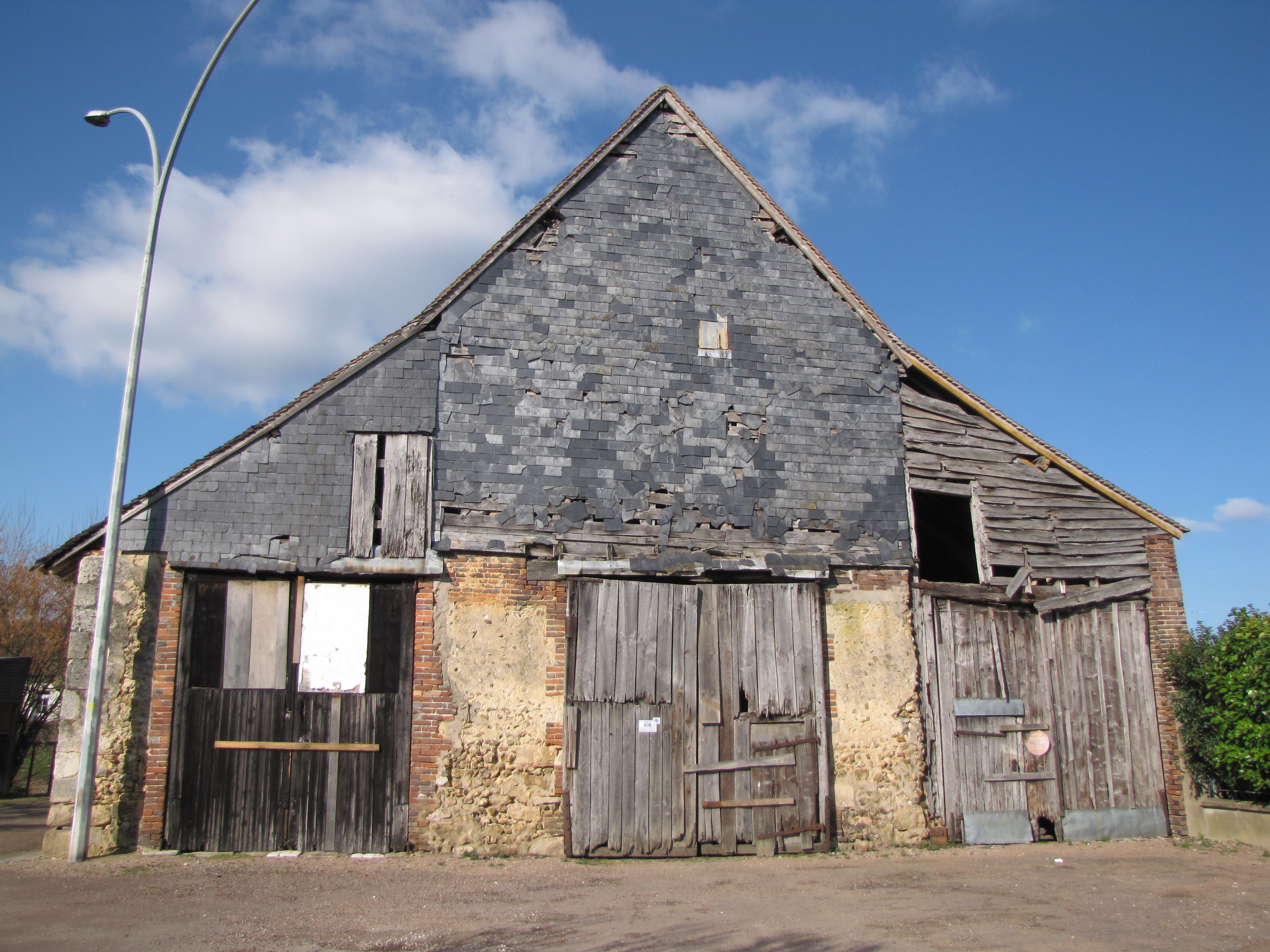 Charny, Yonne, Bourgogne, France. The tithe barn